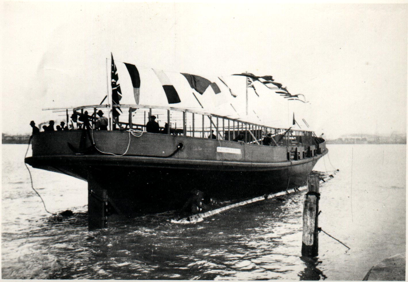 Sydney Ferry Koompartoo launched, 1922. Walsh Island Dockyard and Engineering Works, Newcastle. 1922- launch. (01/01/1922 - 31/12/1922), [A-00075900]. City of Sydney Archives, accessed 03 Jul 2020